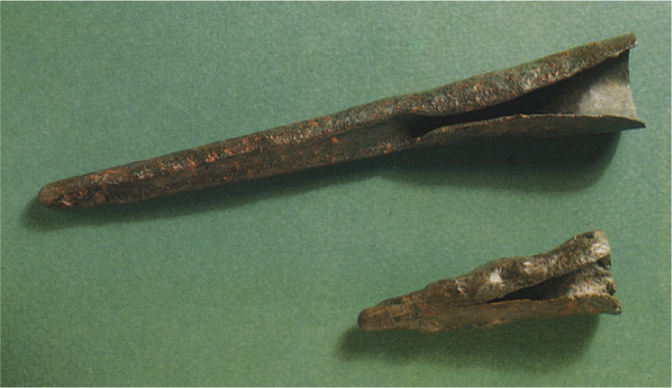 Iron points from the Iron age found in Tell Dan Israel